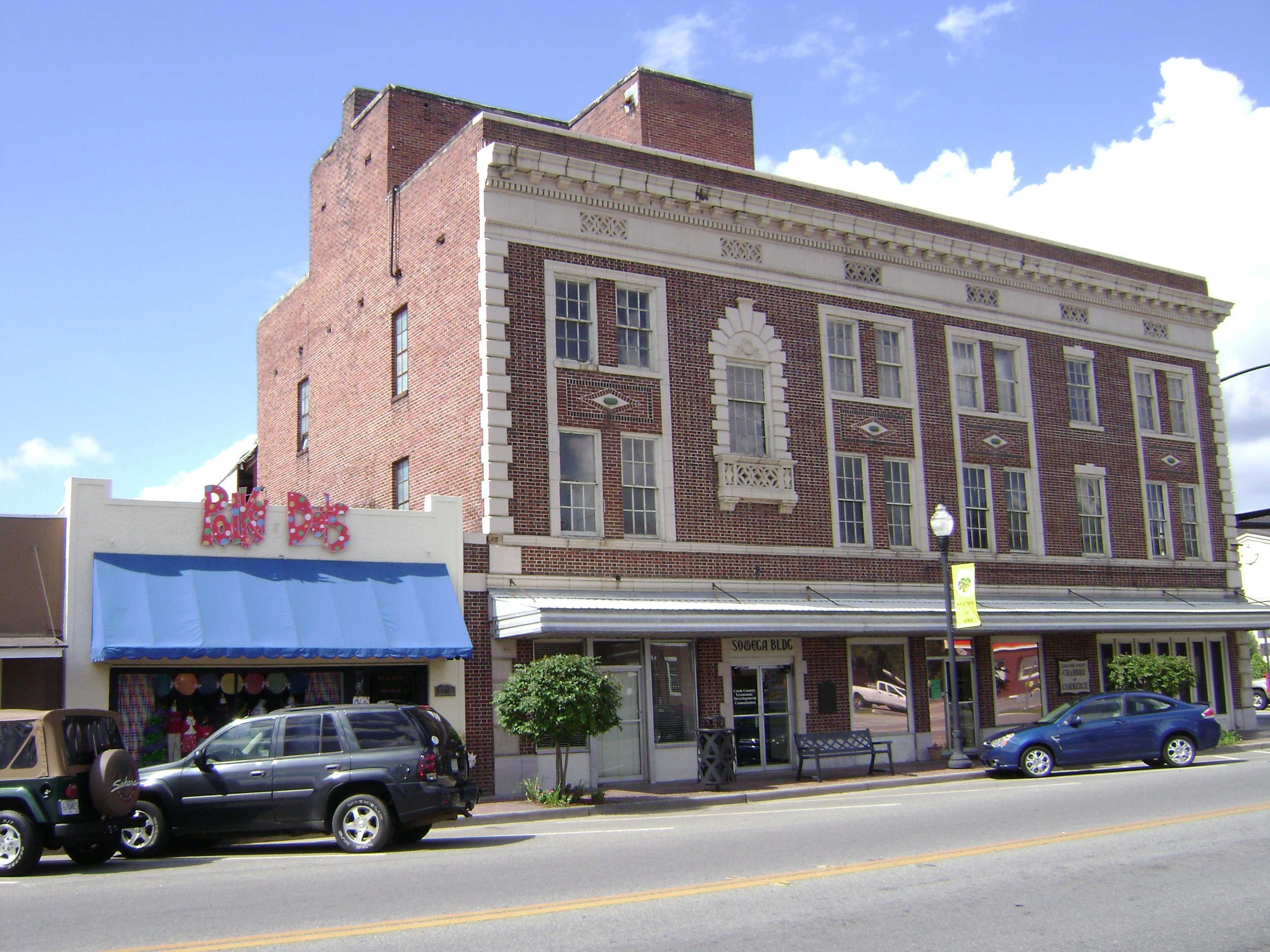 Southeast corner of SOWEGA Building on the corner of US Hwy 41 & GA 37/76 in Adel, Georgia